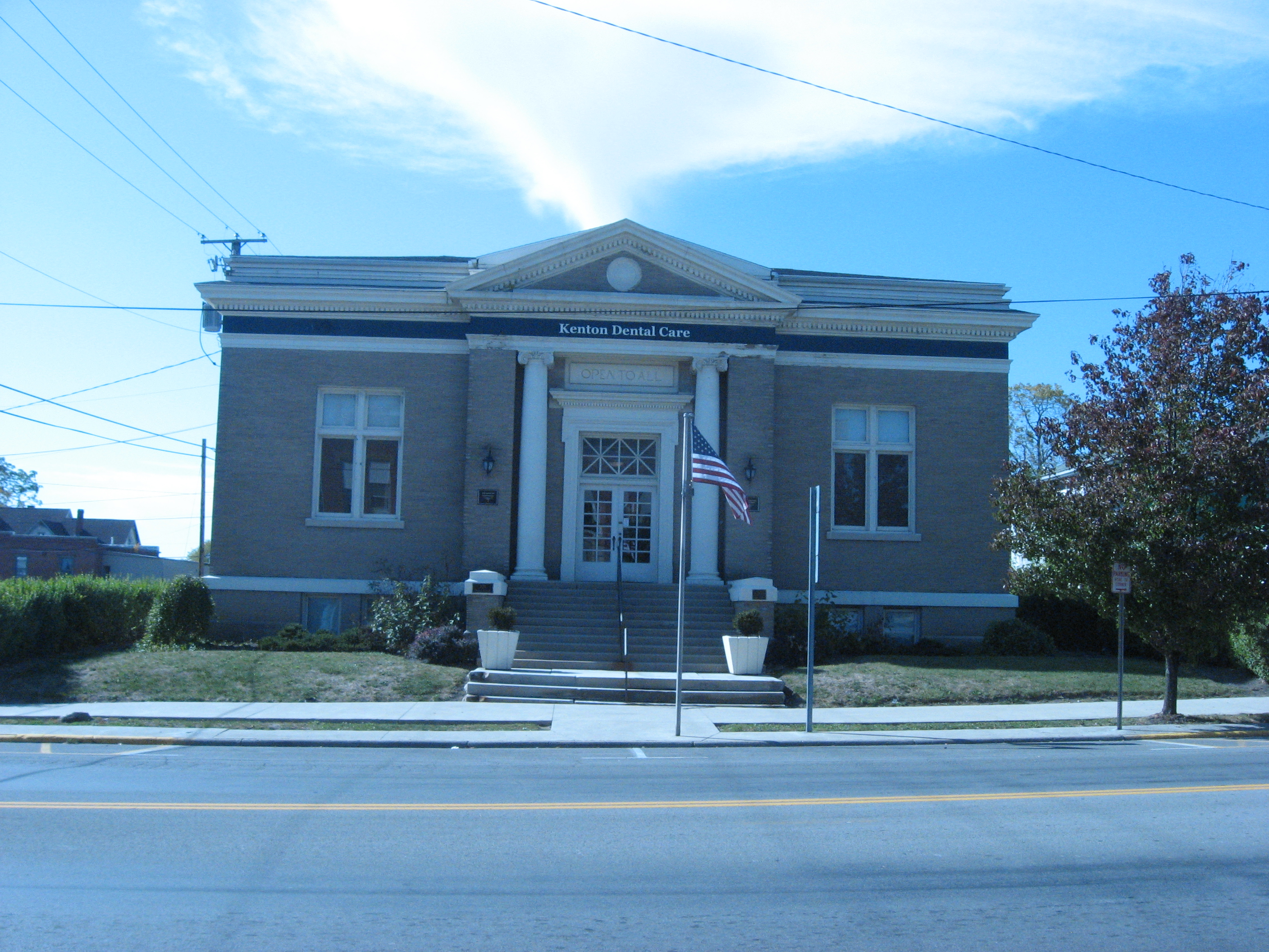 Front of the former Kenton Public Library (now a dentist's office), a National Register of Historic Places site in central Kenton, Ohio, United States. A Carnegie library built in 1905, it is located at 121 N. Detroit St. (U.S. Route 68), north of the Hardin County Courthouse.